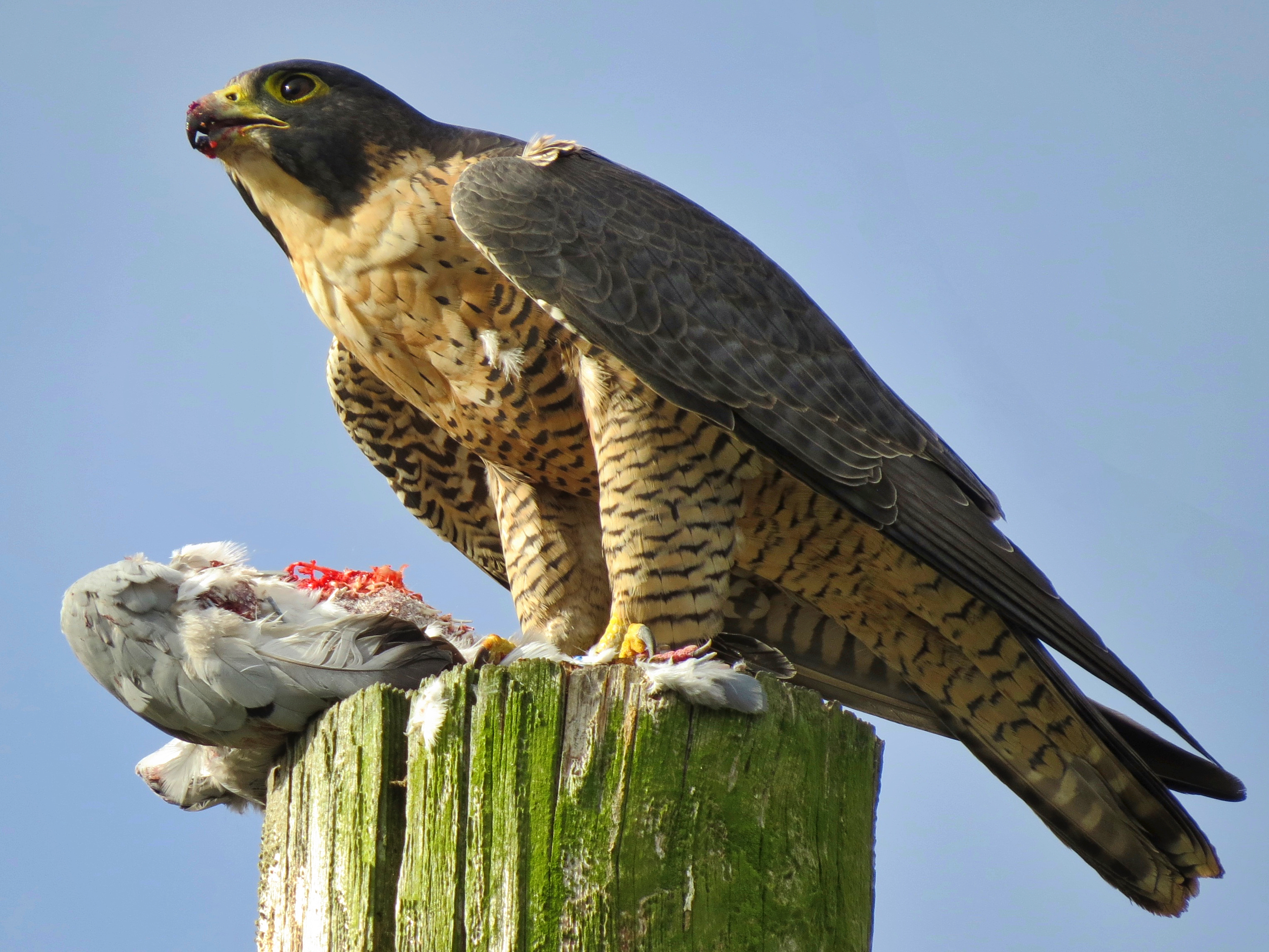 A peregrine falcon Falco peregrinus on a telephone pole eating a pigeon.